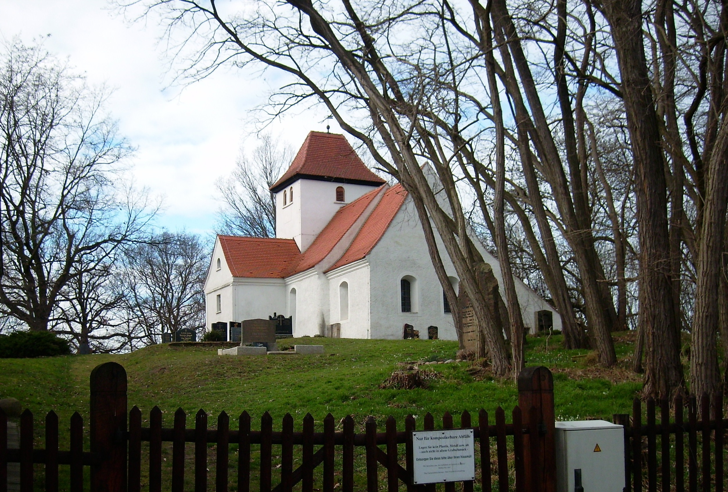 Church of the village of Gostemitz (Jesewitz, Nordsachsen district, Saxony)